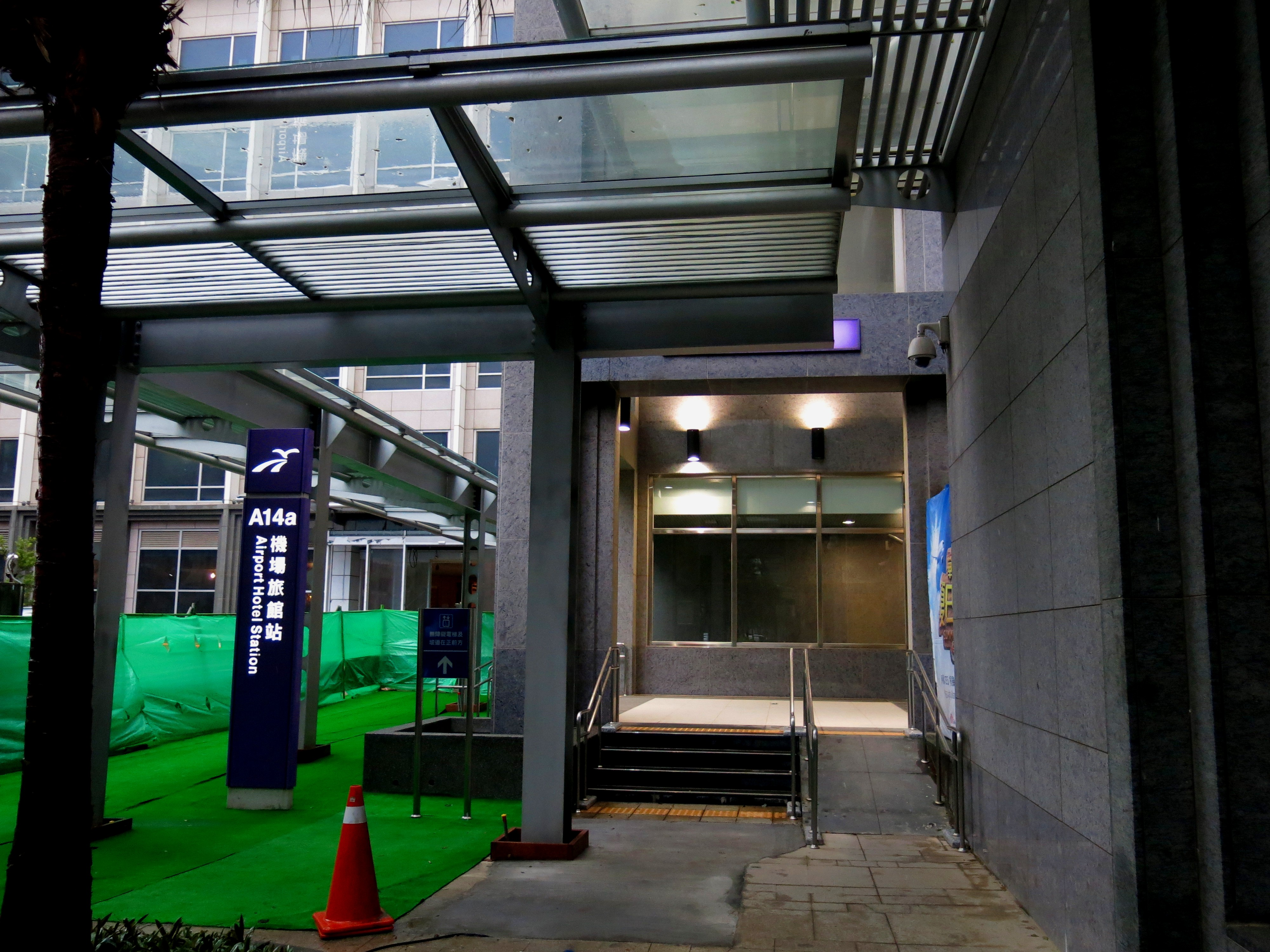 Taoyuan Metro A14a Airport Hotel Station 中文（中国大陆）: 桃园捷运机场线A14a机场旅馆站